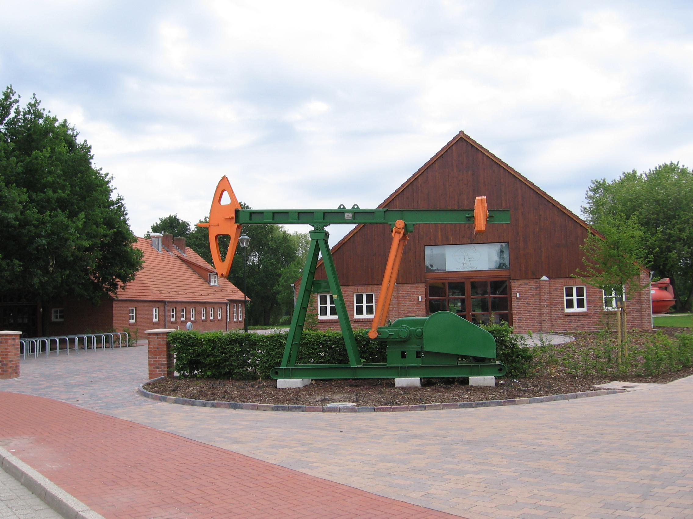 Museum for crude oil and natural gas (Erdöl-Erdgas-Museum Twist) in Twist-Mitte